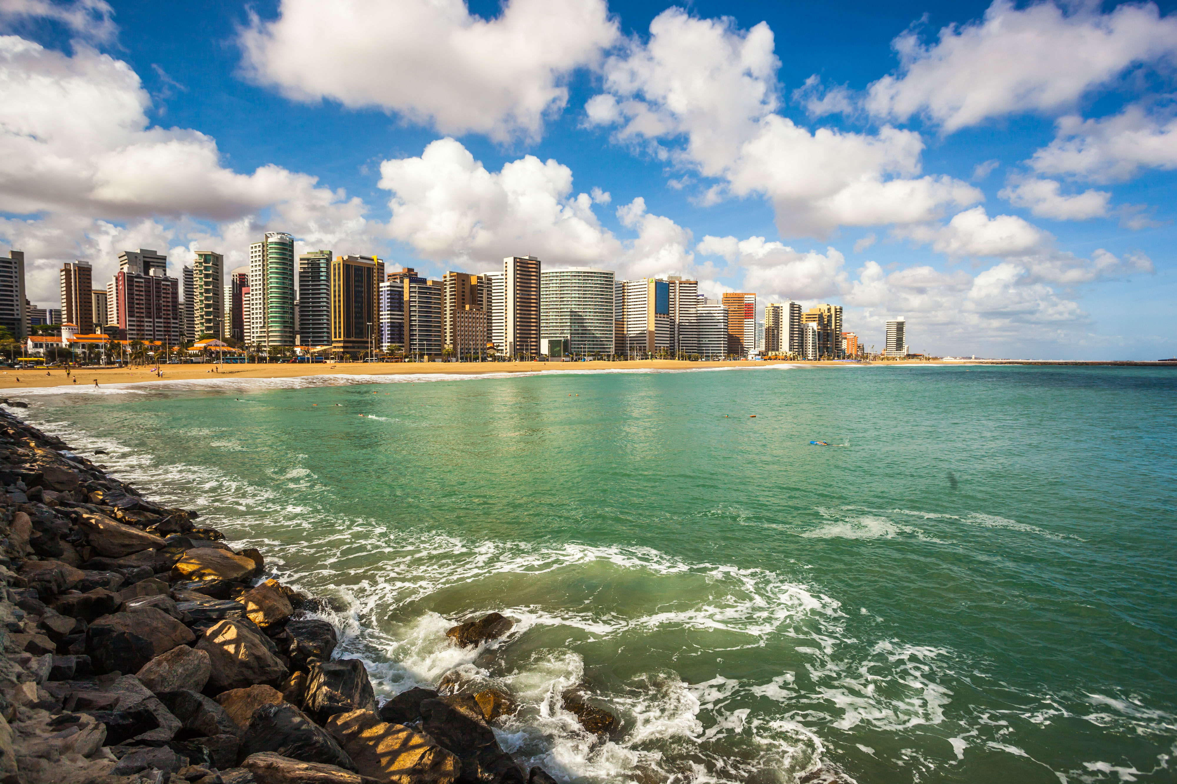 Seashore of Fortaleza (3)